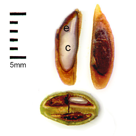 Syringa vulgaris seed